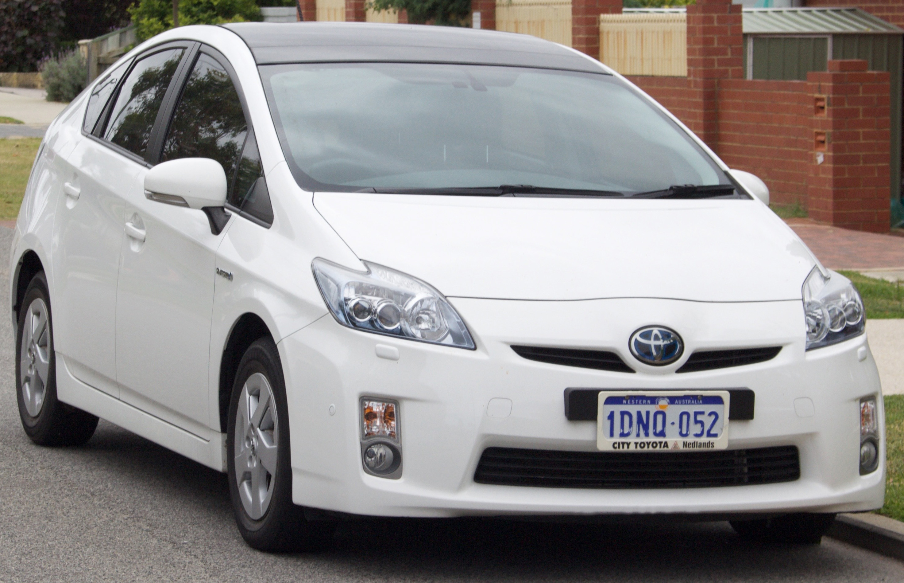 2009–2012 Toyota Prius (ZVW30R) i-Tech liftback. Photographed in Nedlands, Western Australia Australia